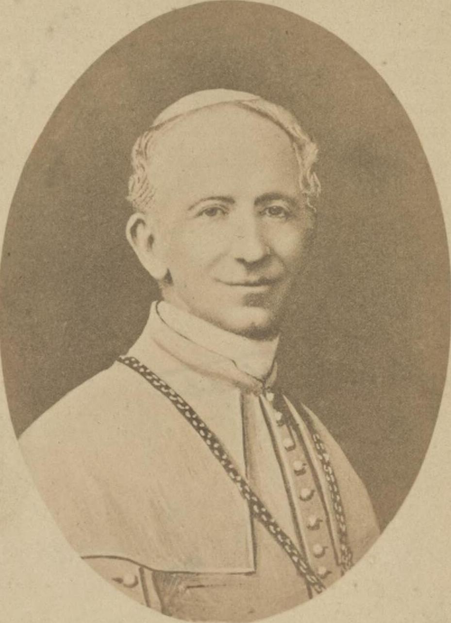 A portrait from the Welsh Portrait Collection at the National Library of Wales. Depicted person: Leo XIII – 256th Pope of the Catholic Church